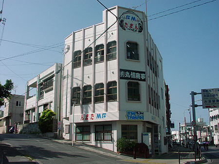 FM Taman Radio Broadcasting Station in Okinawa